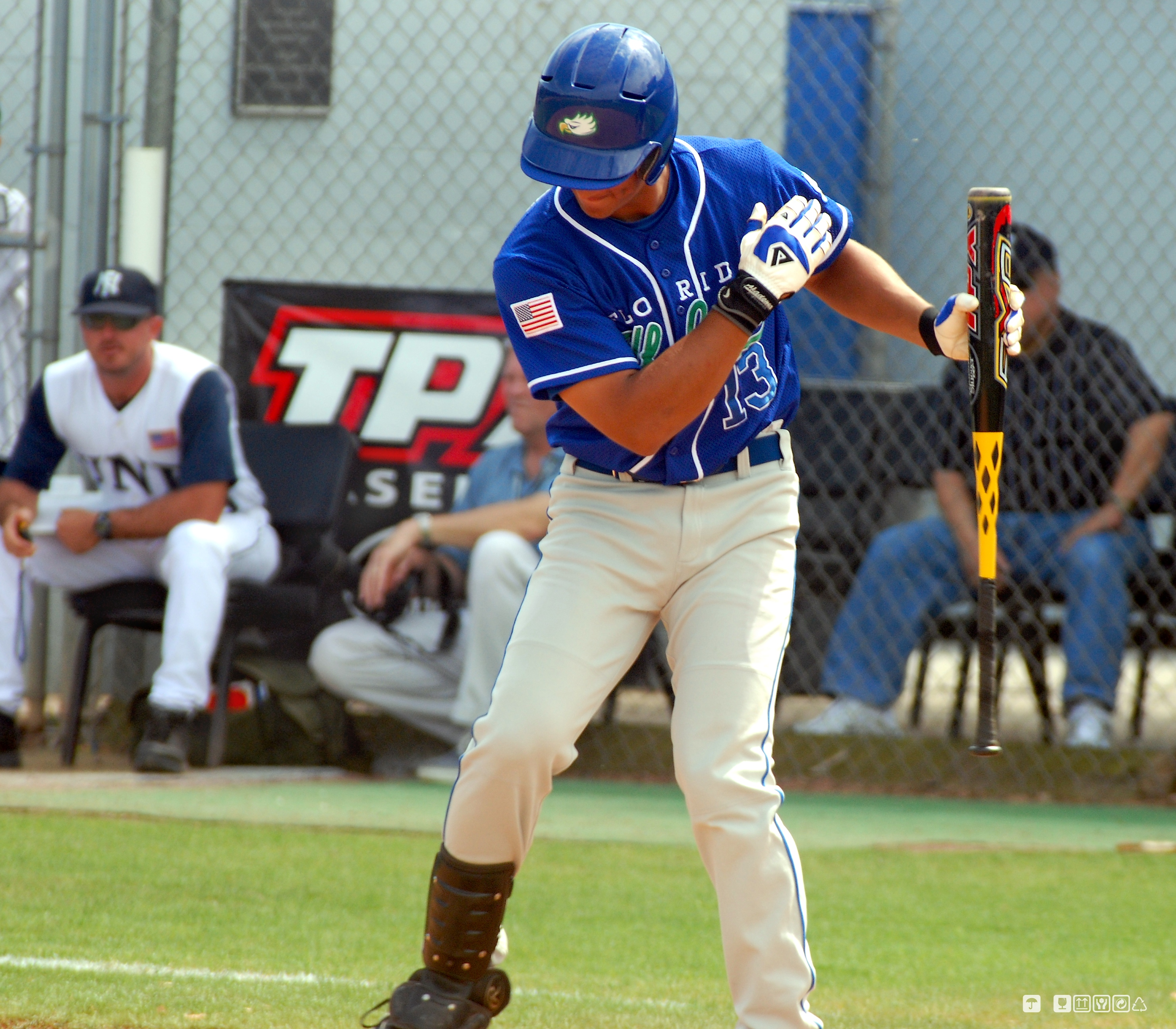 A Florida Gulf Coast University baseball player at bat against the University of North Florida.